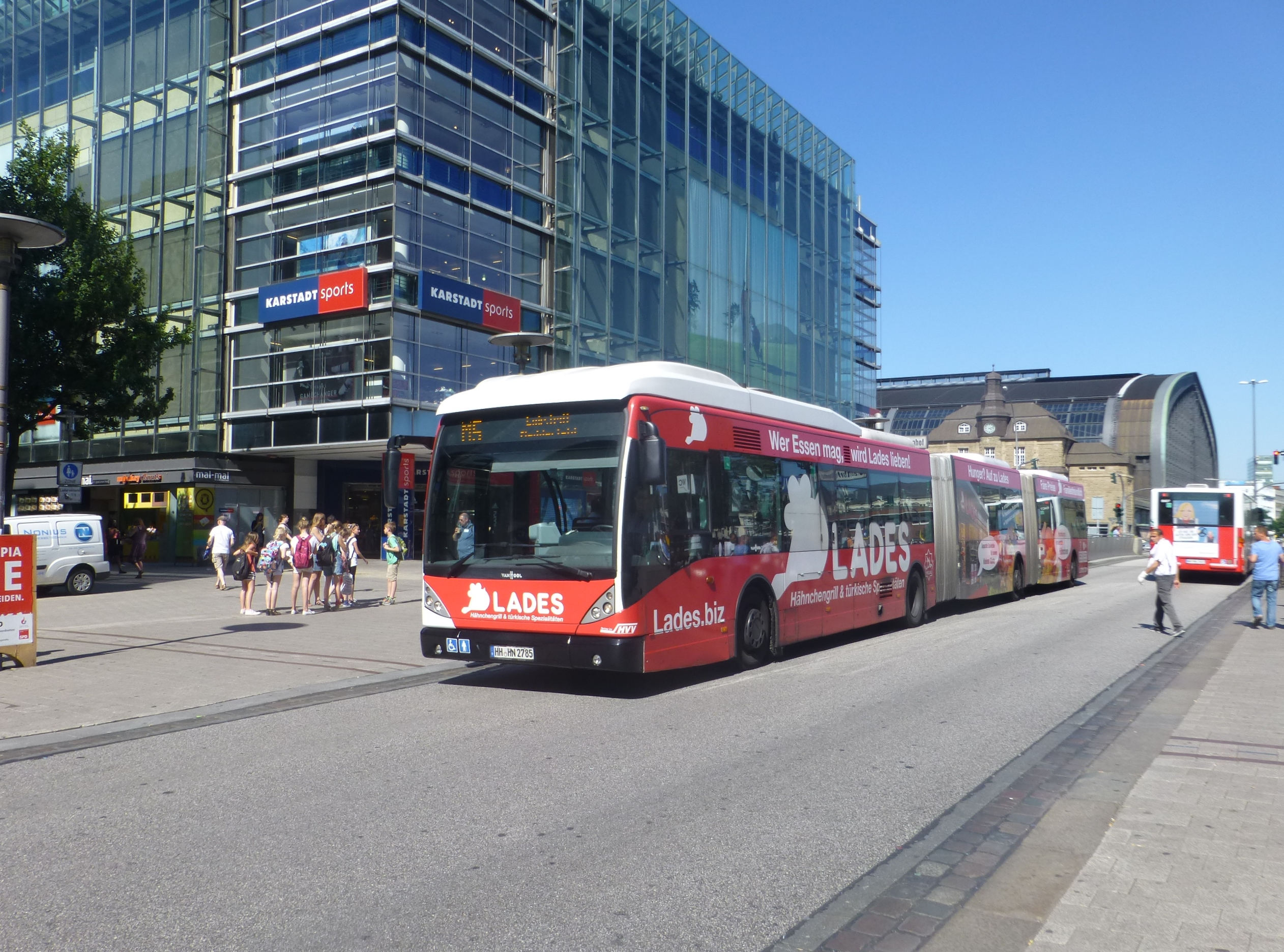 HHA bus line M5 on Mönckebergstraße in Hamburg.